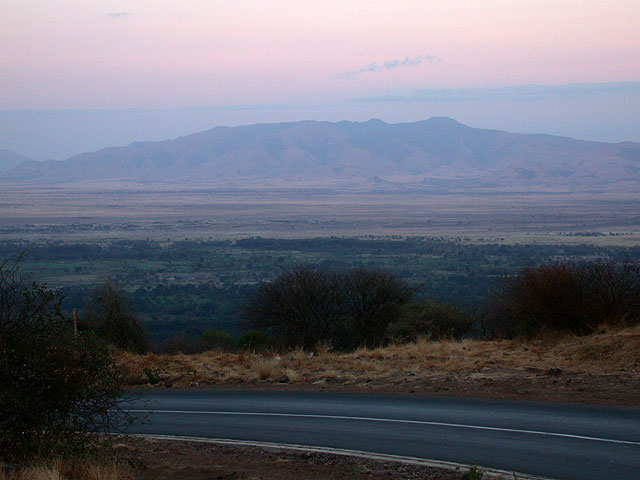 View from the edge of the Great Rift Valley down to the small town Mto wa Mbu, Tanzania